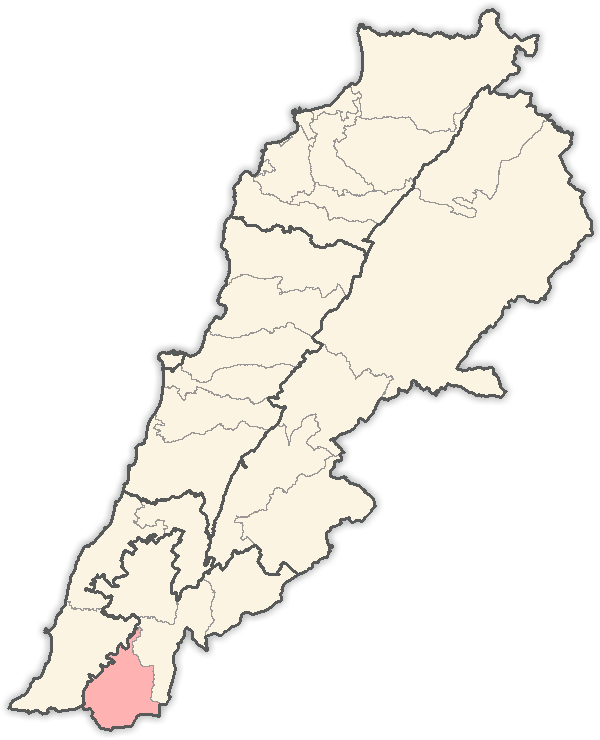 Map of districts in Lebanon, highlighting the Bent Jbail District